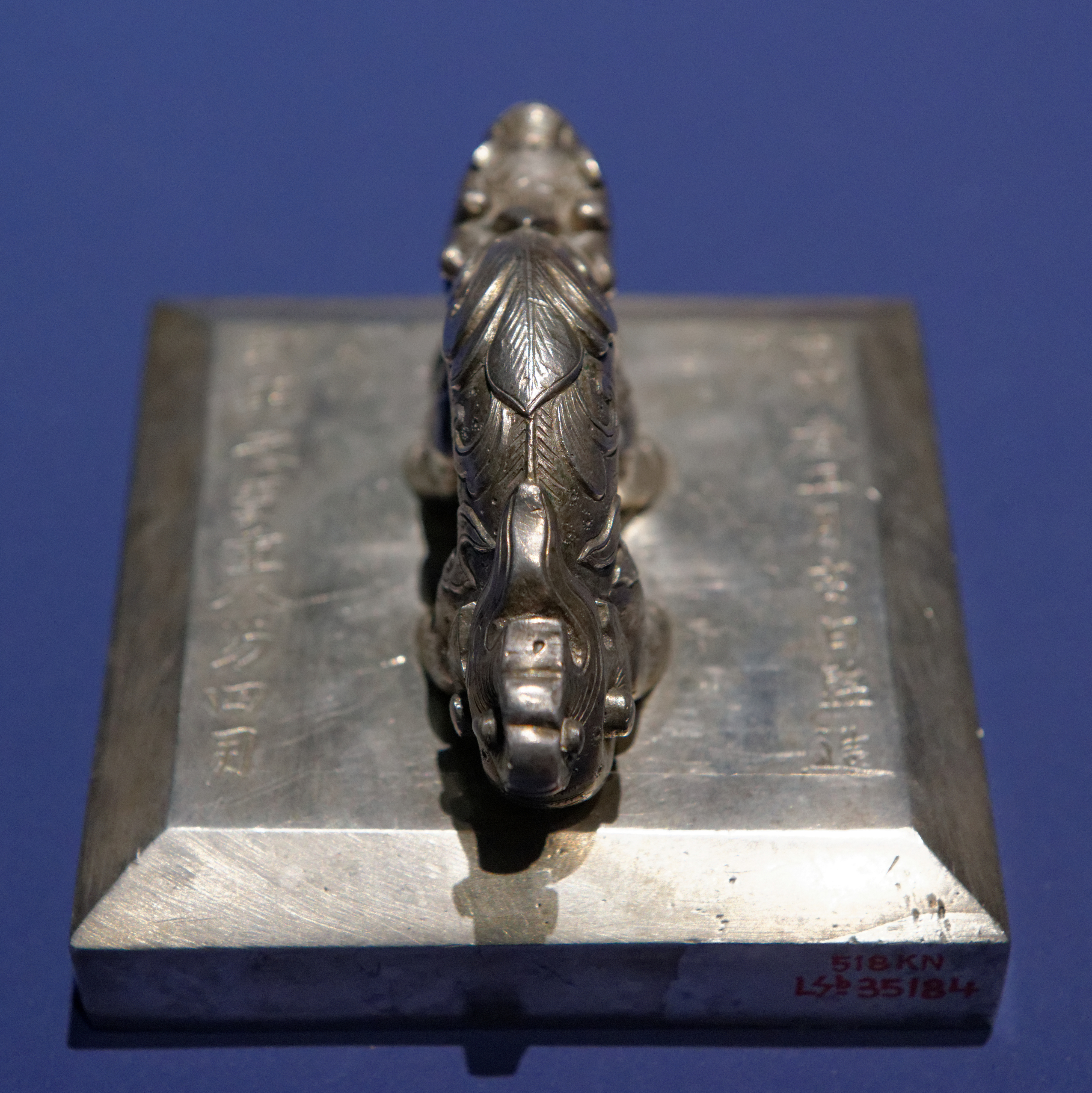 Seal of Emperor Gia Long with a handle in the shape of a dragon.